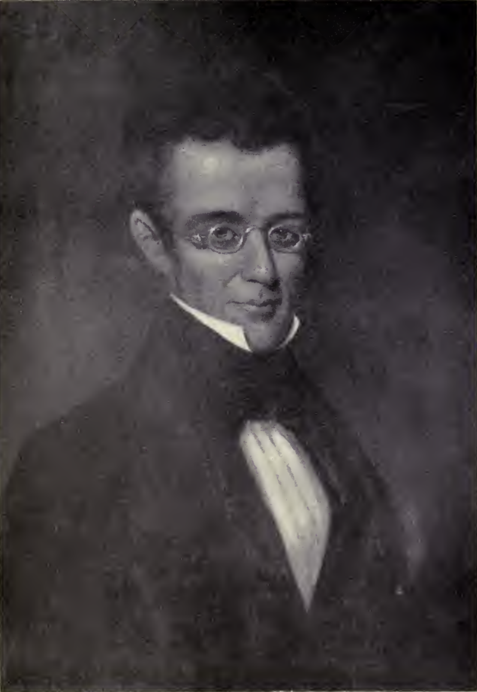 Osgood Johnson, 5th Principal of Phillips Academy, Andover, MA